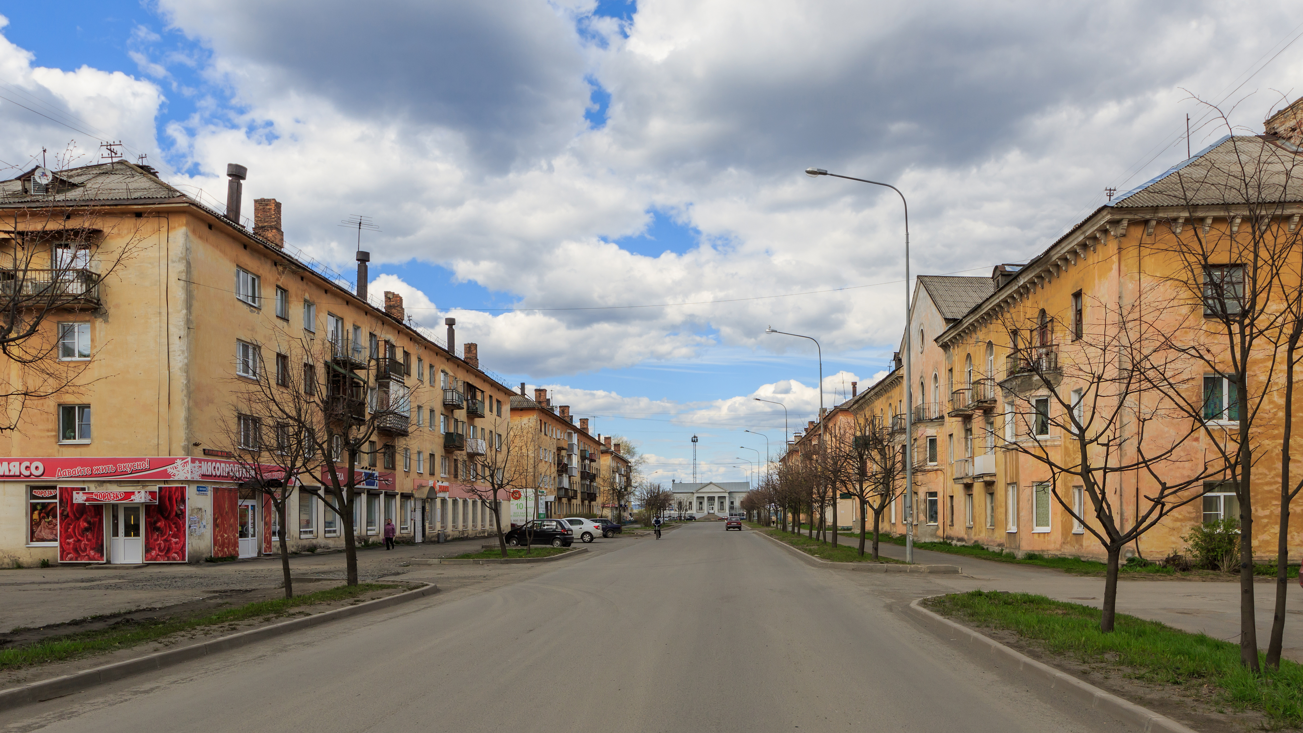 Proletarskaya Street in Kondopoga, Republic of Karelia (Russia).